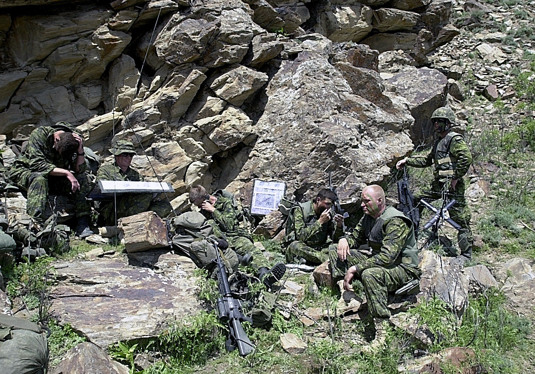 Royal Canadian Army Soldiers assigned to Princess Patricia's Canadian Light Infantry set up a command post on a mountainside 7,500-feet above sea level in the Tora Bora region in Afghanistan during Operation Torii. Operation Torii is a Coalition operation consisting of over 400 members from the US Military, Canadian Army, and the Afghanistan Military Forces (AMF), who's mission is to gather intelligence, exploit, and deny entrance to four underground sites, while looking for Osama Bin Laden.